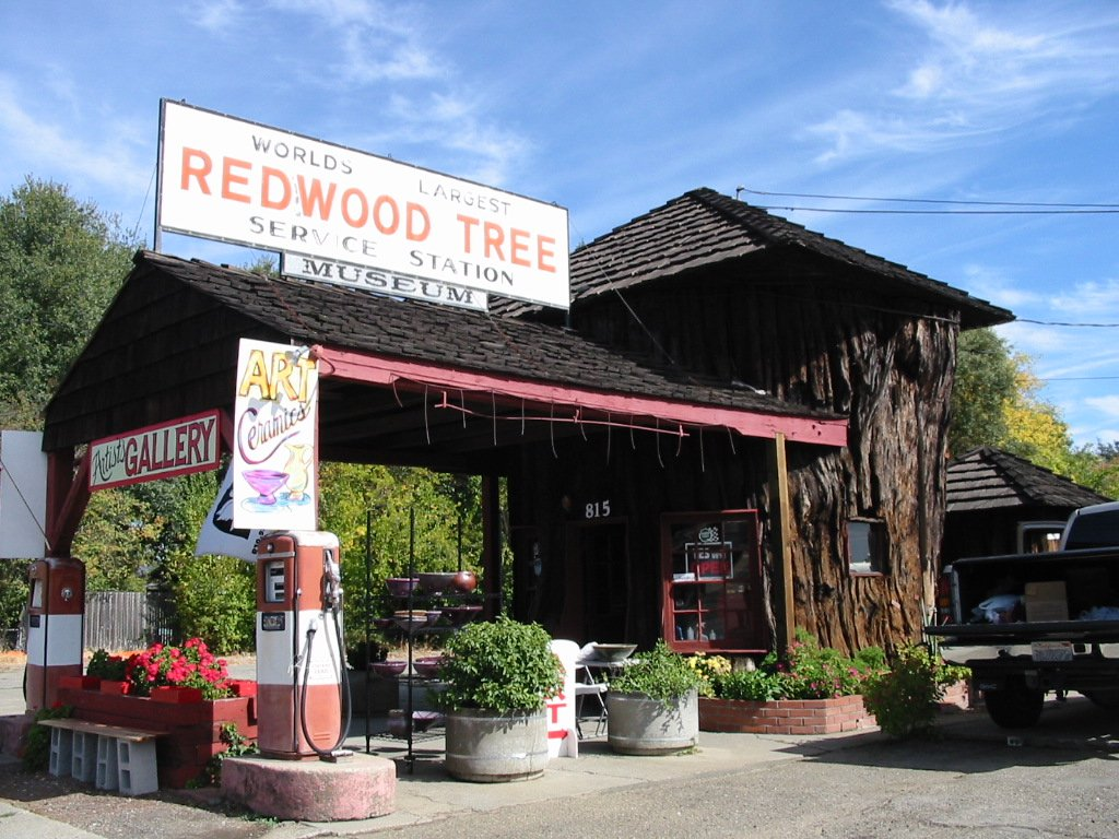 Ukiah, this spot of roadside Americana touts itself as the "World's Largest Redwood Tree Service Station" and appears to be built largely from a massive section of Sequoia. The retired pair of gas pumps display a price of 28.9 cents per gallon which dates their last service from the 1950s. The station's location is on State Street (the "main drag" of Ukiah) which served as US 101 until the freeway was built nearby. Source Photographed by myself (Binksternet) in September 2007.